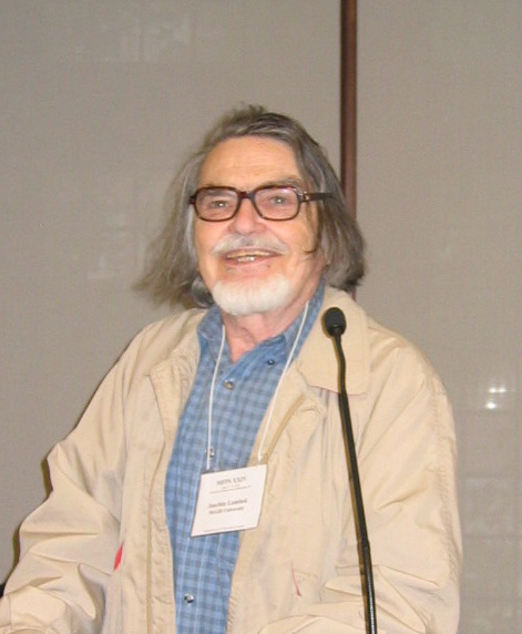 Joachim Lambek at Mathematical Foundations of Programming Semantics Philadelphia, May 2008